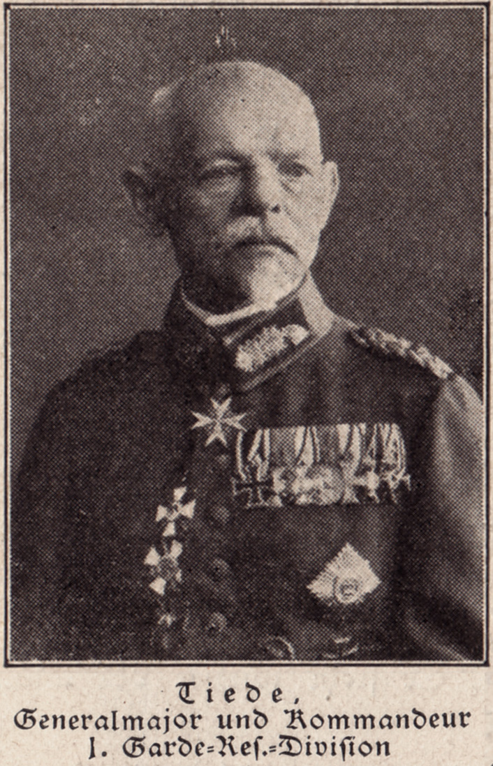 Prussain General Paul Tiede